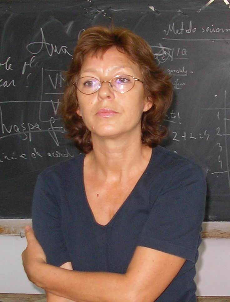 portret